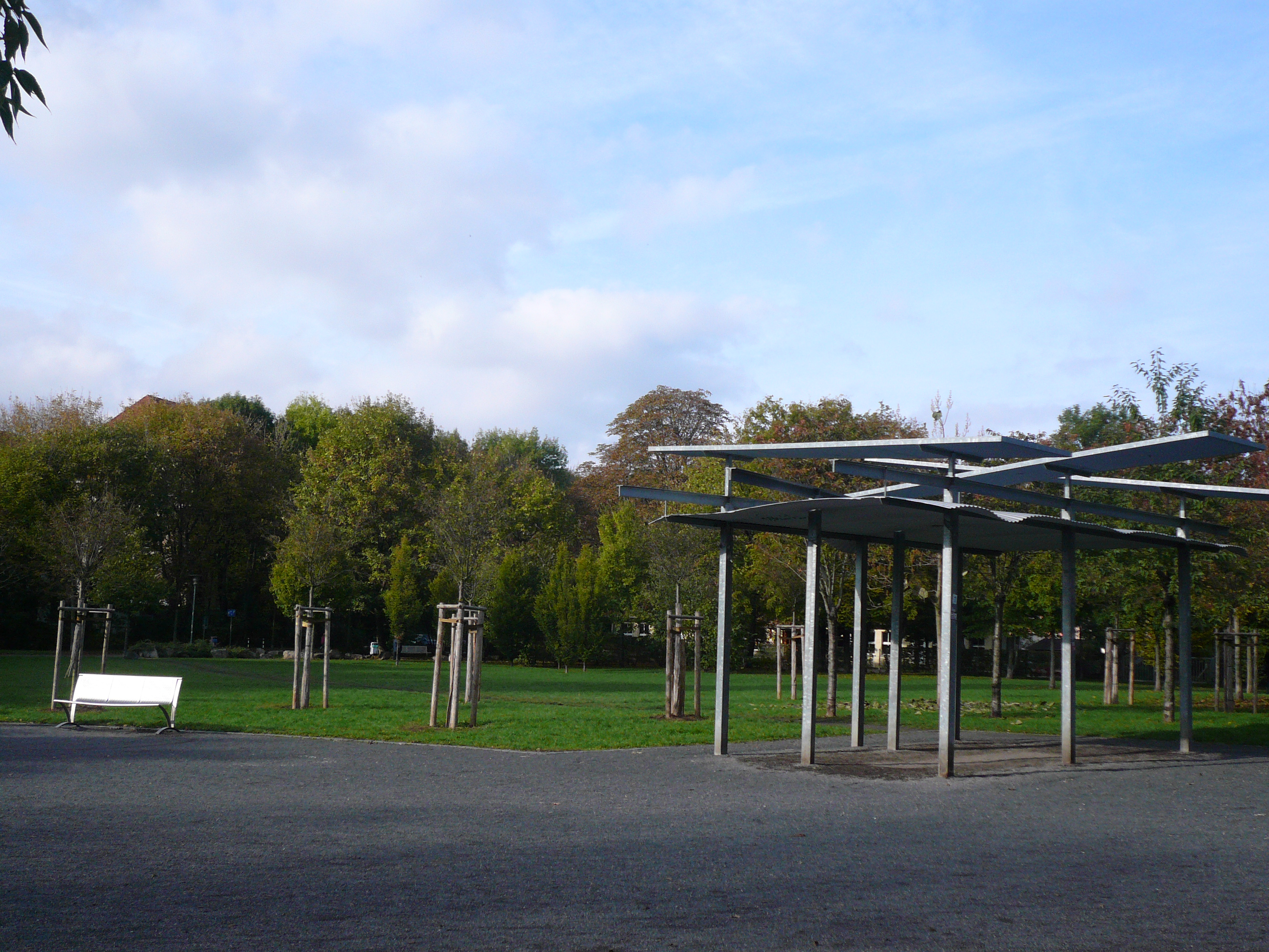 The borough "Venedig" in Erfurt, Germany.